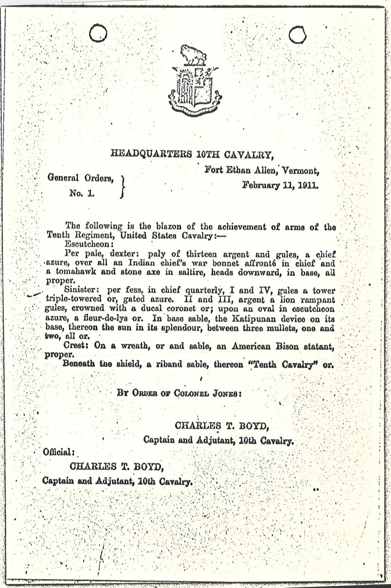 A black and white copy of "General Orders No. 1" that describes the 10th US Cavalry Regimental Coat of Arms on February 11, 1911 .